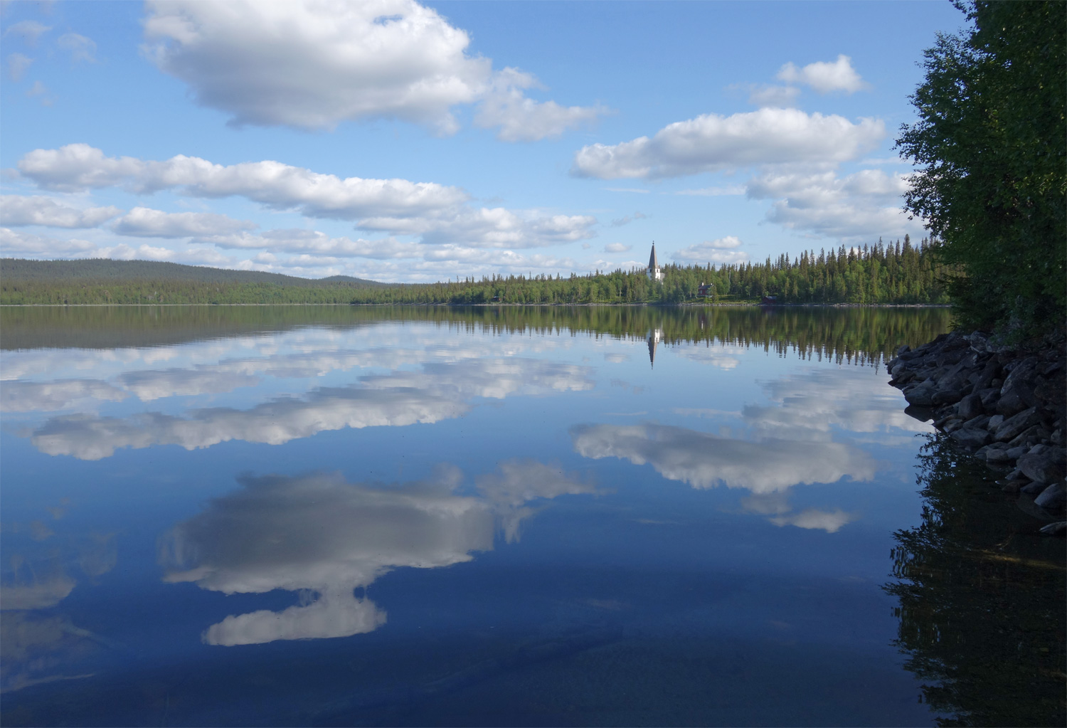 Lake Överst-Juktan in Sorsele Municipality, Sweden, with the church Viktoriakyrkan.